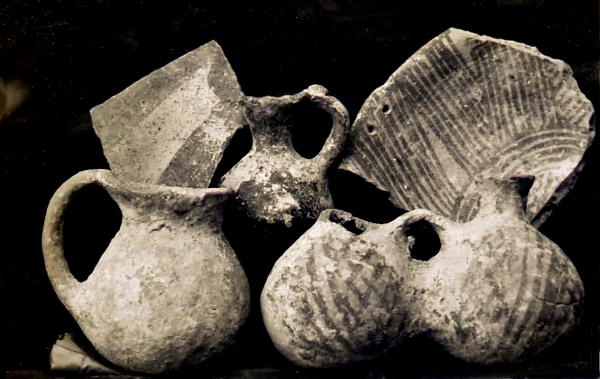 Pottery from the excavation directed by Montagu Brownlow Parker at Mount Ophel, Jerusalem